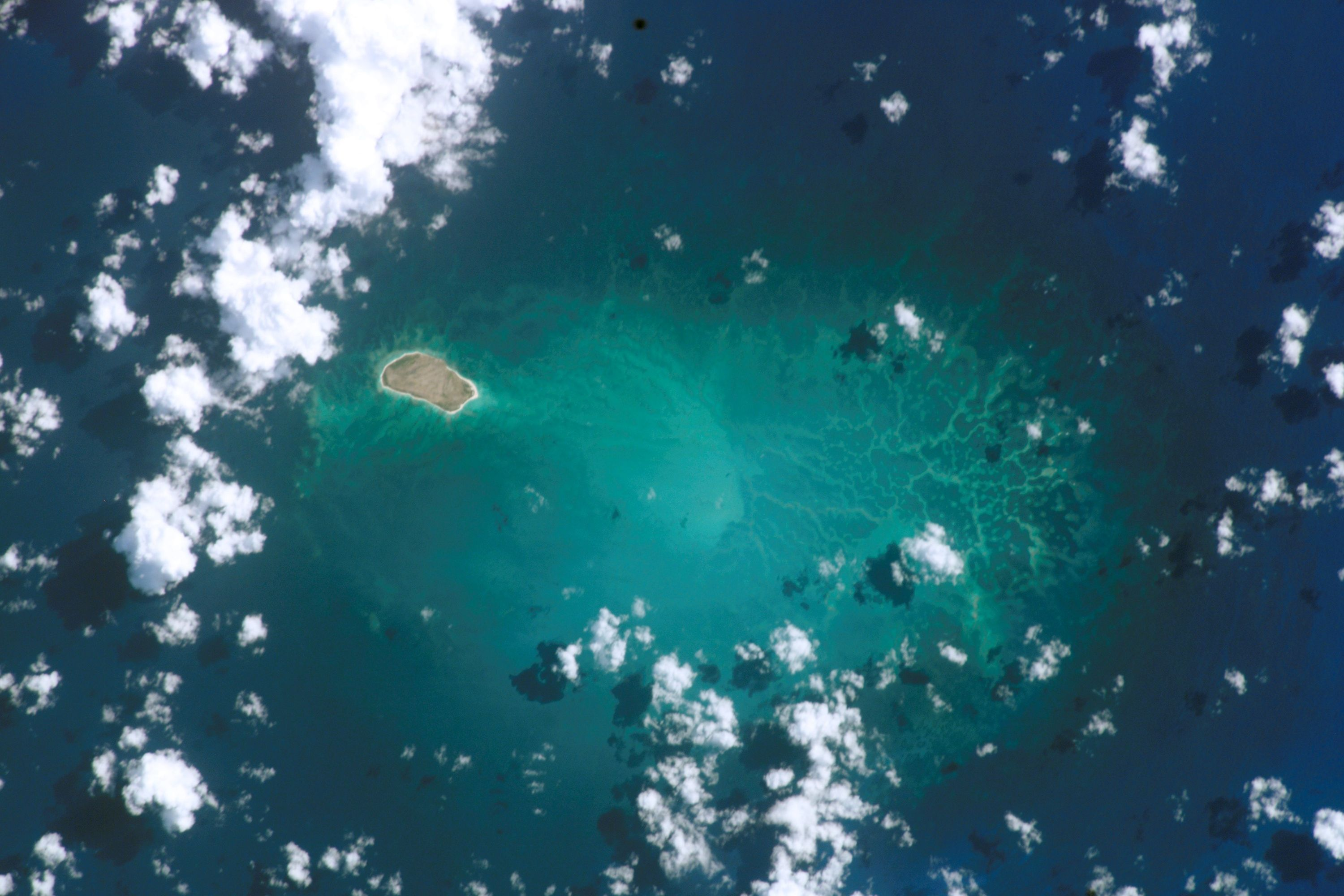 Lisianski Island and Neva Shoals (NWHI)